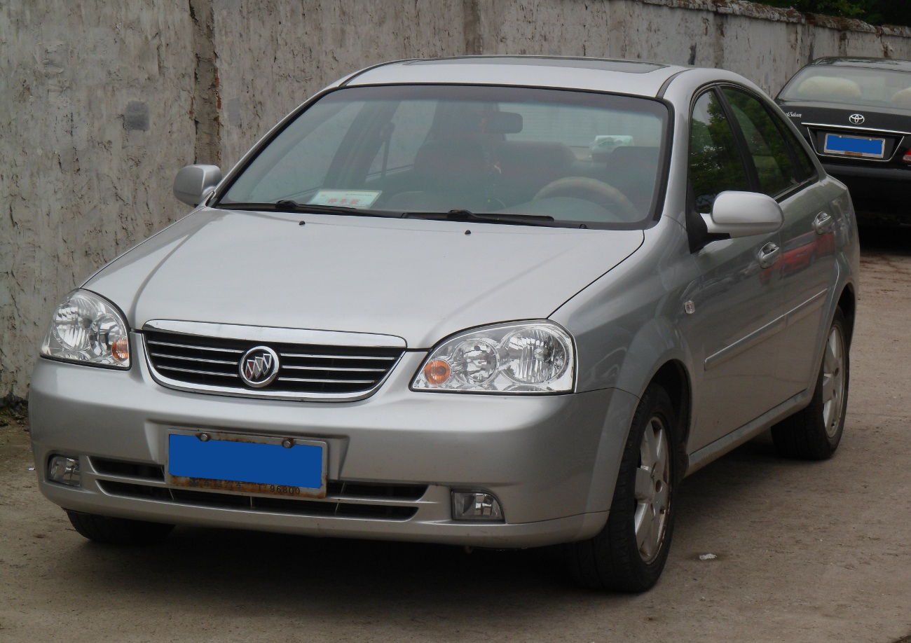 Buick Excelle photographed in Shanghai, China.